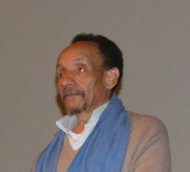 Nantes, Katorza theatre, 15 March 2010. Evening debate organised by Écopôle with Pierre Rabhi and Alain Aubry from the Colibris movement. On this photo: Pierre Rabhi.